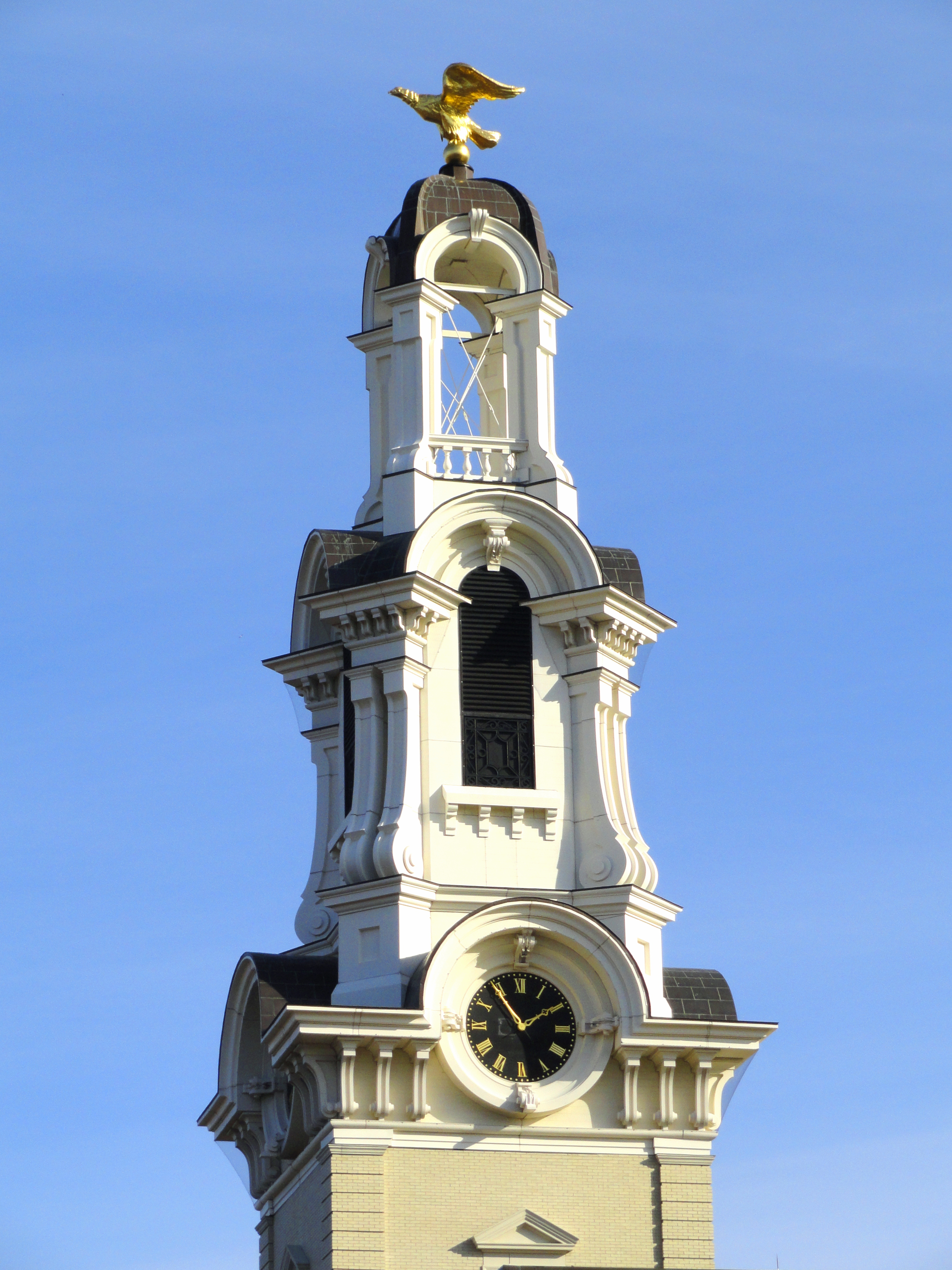 Lawrence City Hall, 200 Common Street, Lawrence, Massachusetts, USA.